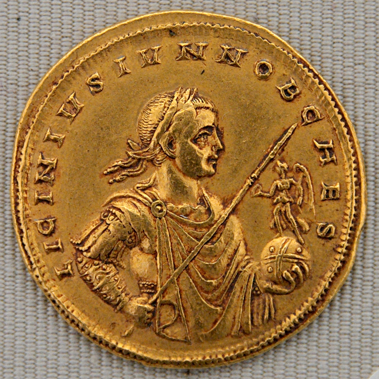 Gold multiple of Licinius Junior, 319 AD. Aquileia mint. Weight: 19.96 g.